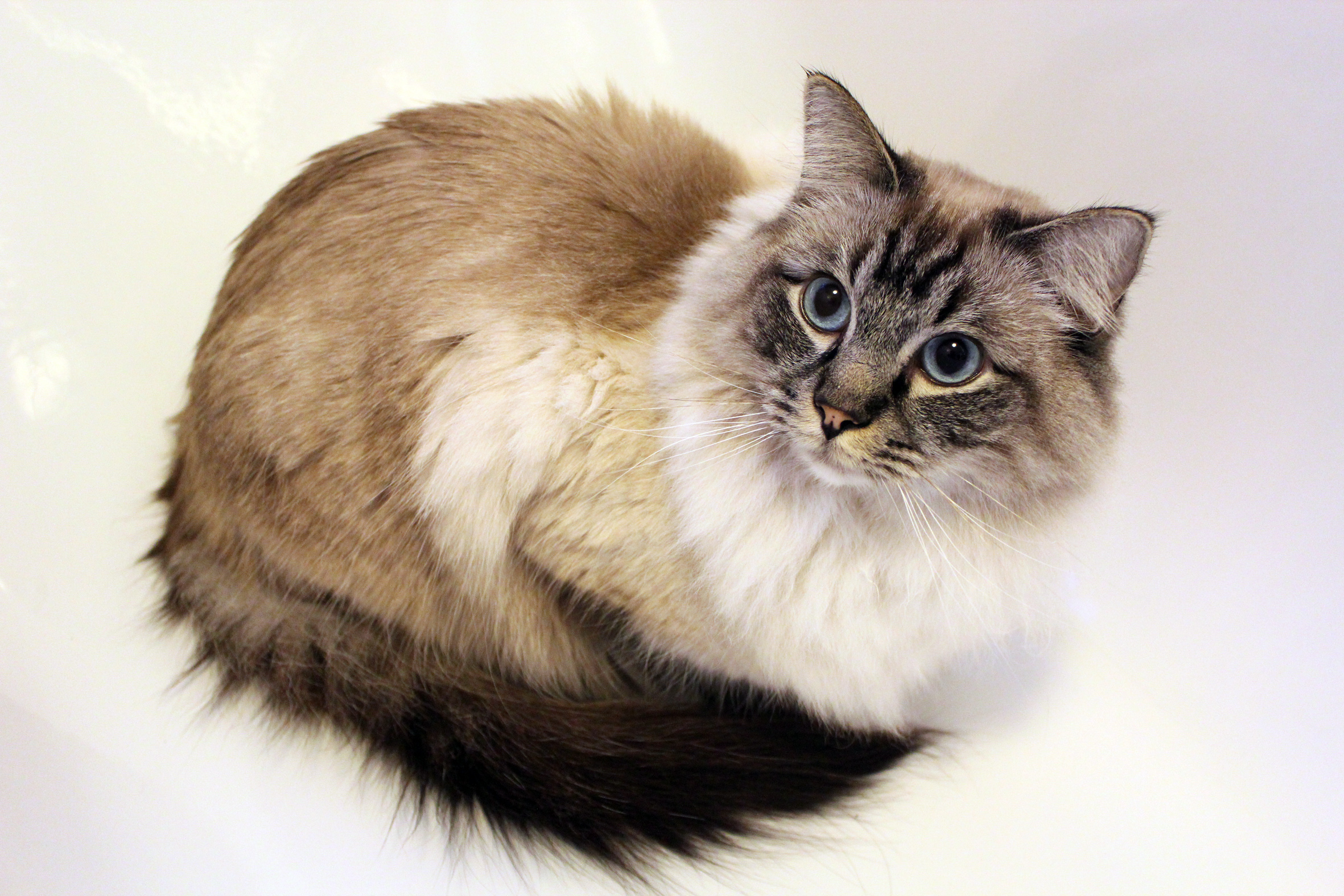 Male Ragdoll, about three years old, with prototypical tabby patterns in the head region: An 'M' on the forehead, bright eye rims and bright borders of the ears. Color/pattern Seal Lynx Point ([1], ACFA).